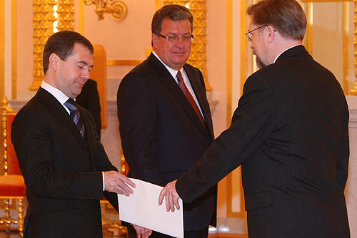 THE KREMLIN, MOSCOW. Presentation ceremony of foreign ambassadors’ letters of credentials. Ambassador of the Republic of Estonia Simmu Tiik presents his letter of credentials to the President of Russia.